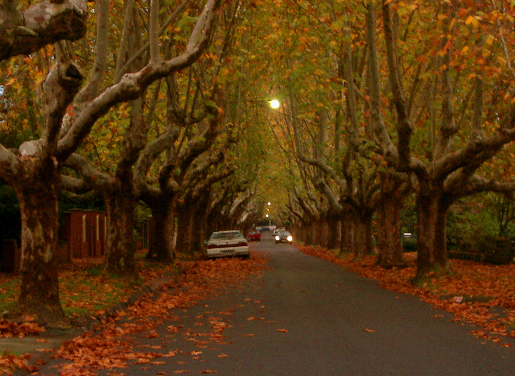 Victoria Avenue, a notable street in the Melbourne suburb of Canterbury.